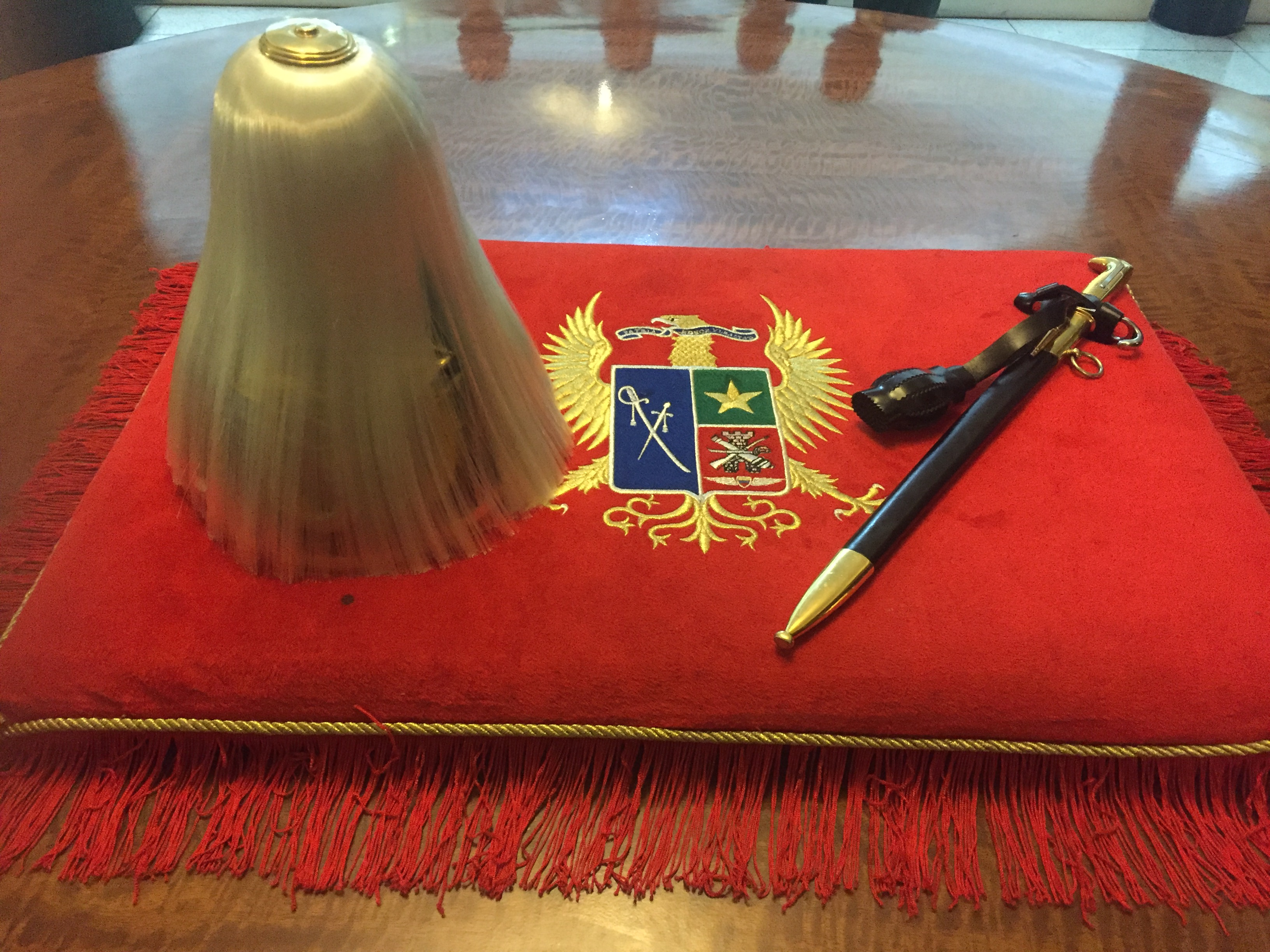 The three main symbols of the Colombian Military Academy , A pickelhaube, the school's coat of arms, and the dagger